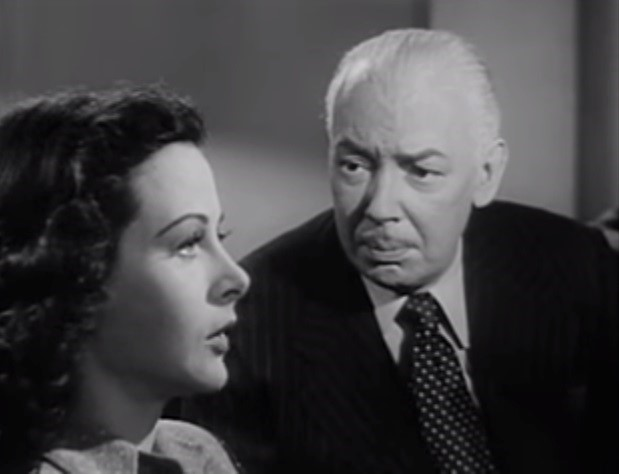 Hedy Lamarr & Nicholas Joy in Dishonored Lady - cropped screenshot